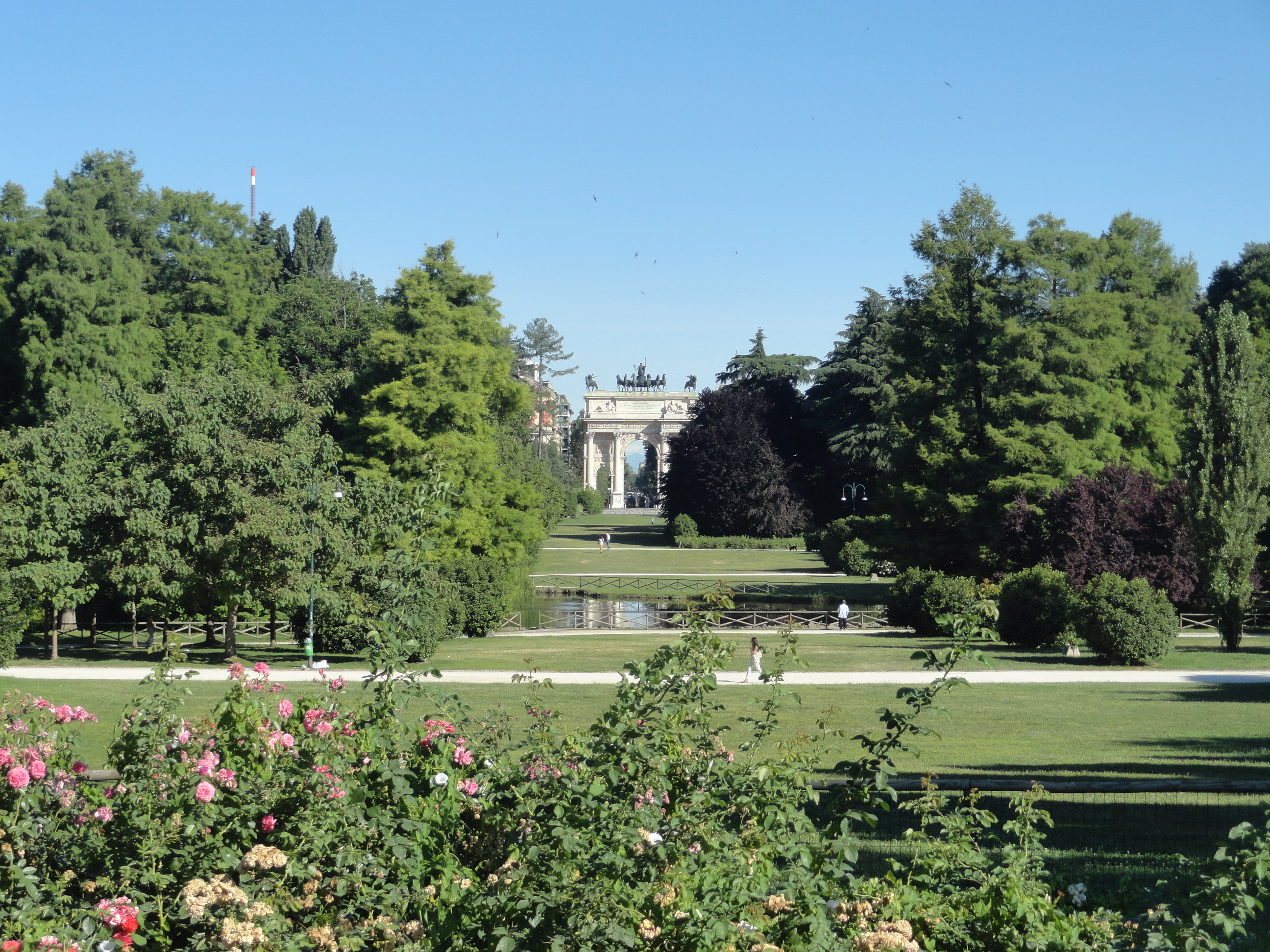 A beautiful view from Castello Sforzesco at the Arco della Pace (The Arch of Peace) in Milan, Italy. You will find the Triennale and the Arena in the park of Sempione as well. You can visit our amazing travel blog at